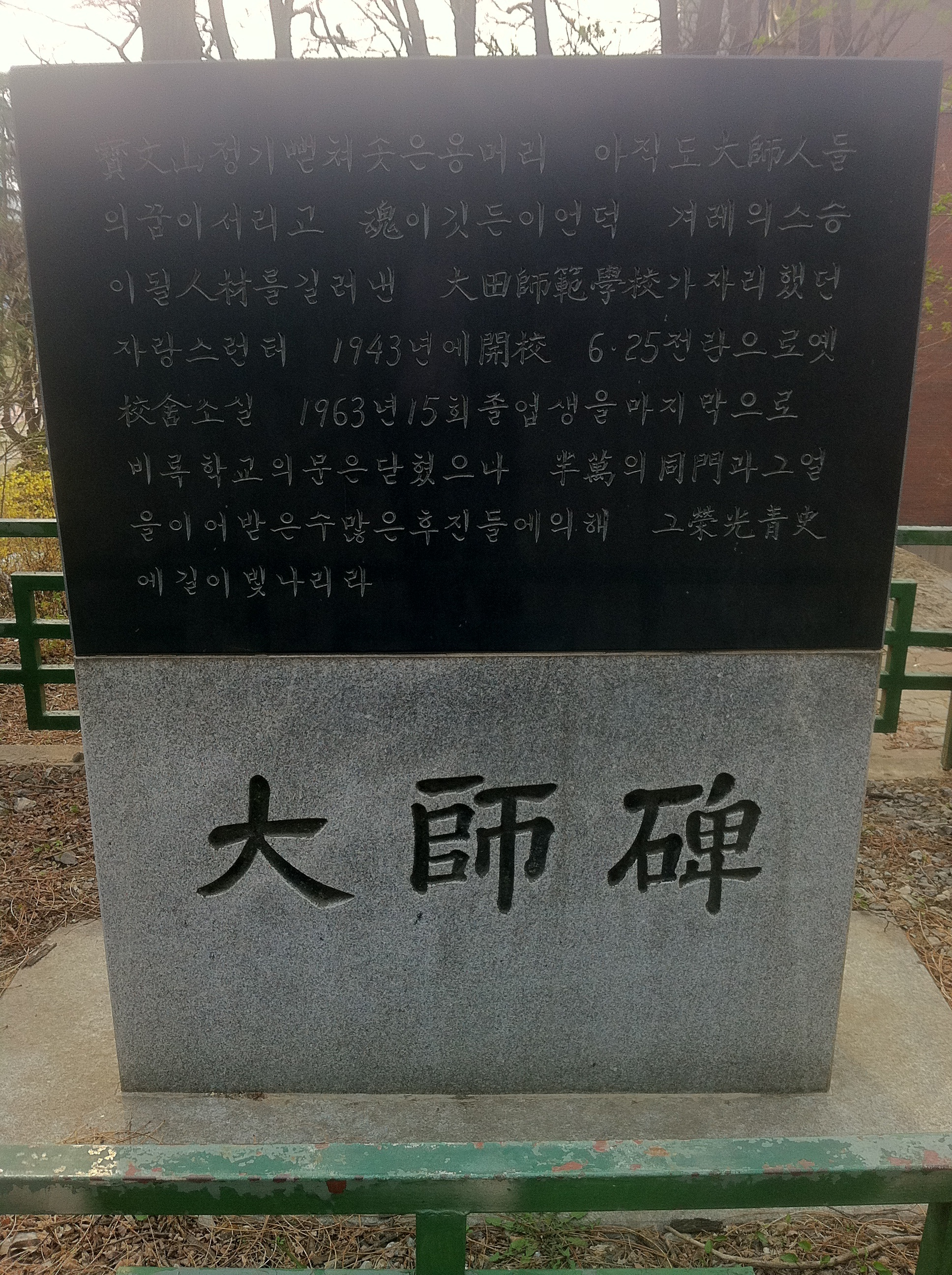 Memorial stone for Daejeon Normal School